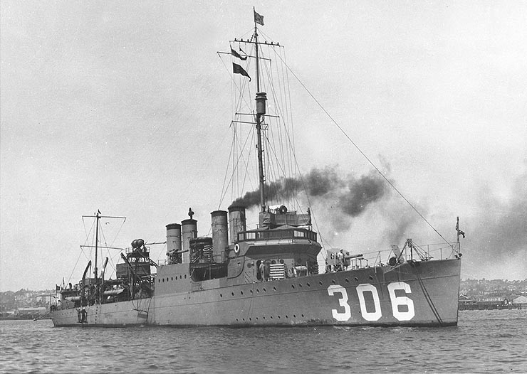 The U.S. Navy destroyer USS Kennedy (DD-306) anchored off San Diego, California, circa 1920-21.